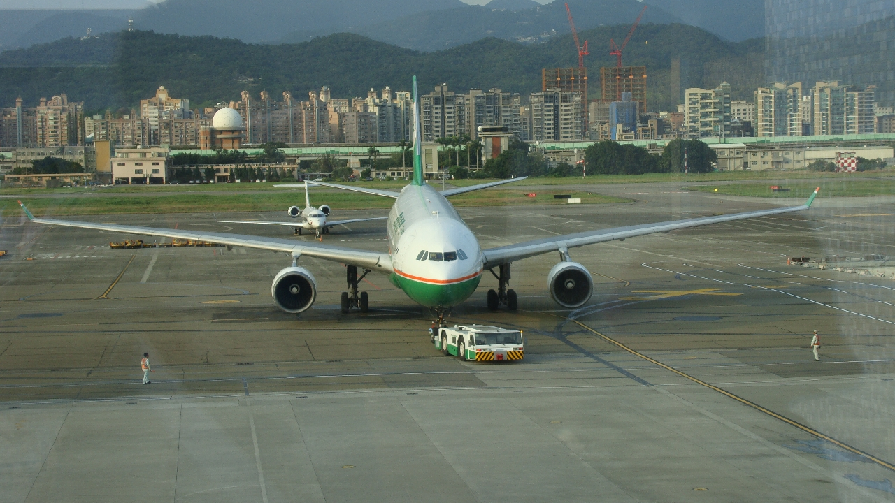 EVA Airbus A330 away from the apron